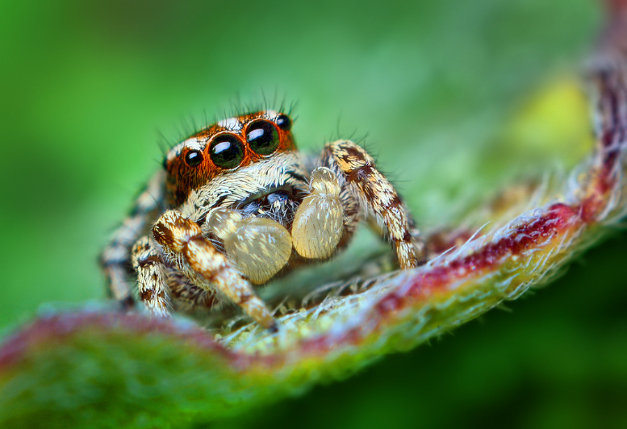 Sub-adult male Habronattus mataxus"I spent two days on the beach, and in-between periods of swimming, I searched the dunes near the beach (see pictures below) for bugs. During these two days, I found several of these little Habronattus jumpers - sub-adult males, adult males, and females of several maturity levels. I had absolutely no idea what species these little guys were until I got back home and e-mailed all the pictures to Dr. Wayne Maddison for identification. He replied and identified these spiders as "Habronattus mataxus" - a species almost exclusively found in just this region of Texas. And as far as I can tell (aside from Maddison's photos of the species) my photos are some of the first relatively high quality photos of this species anywhere online (not that amazing of a claim, but interesting and somewhat valuable nonetheless!)"